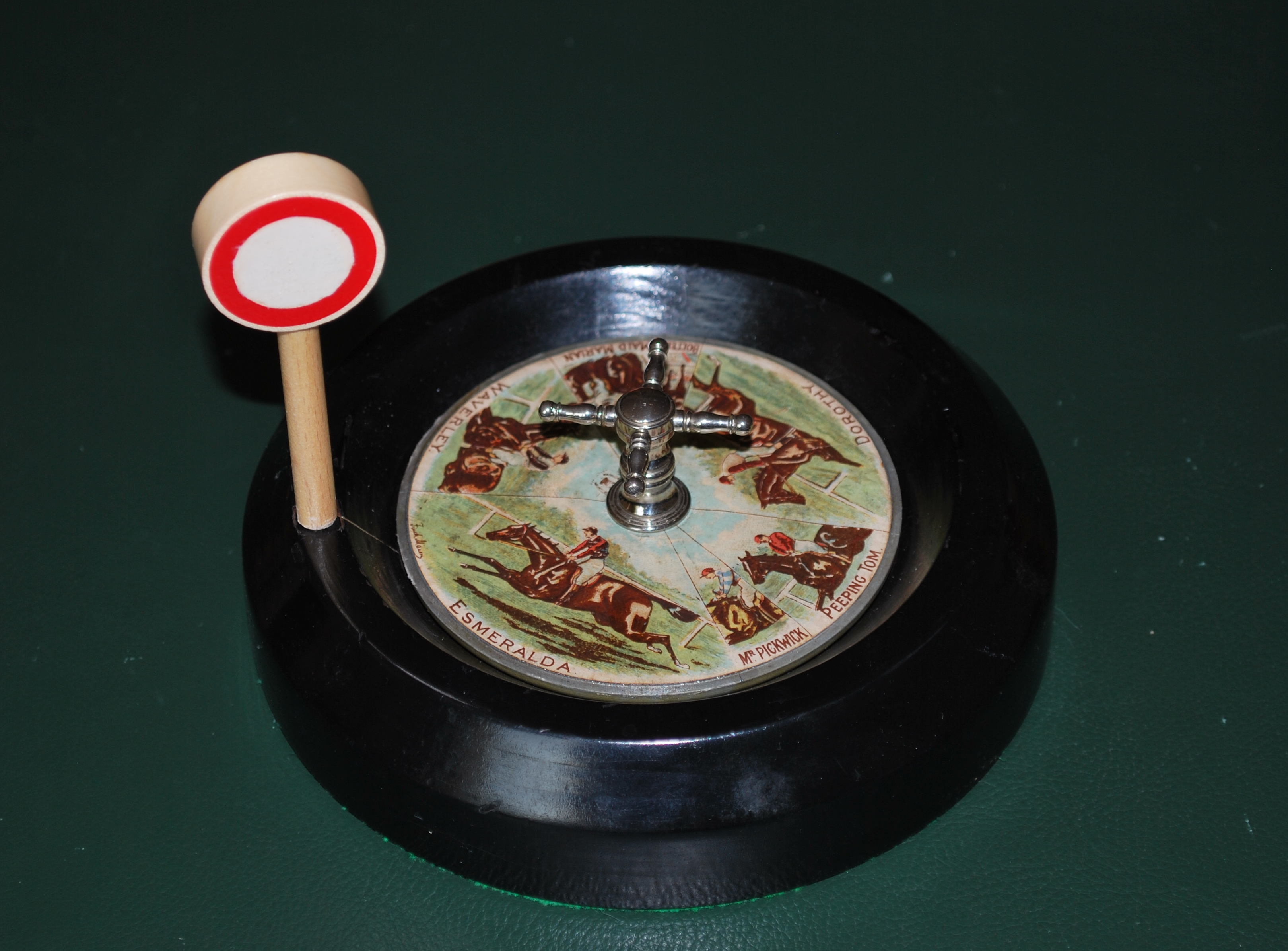 Wheel for the gambling game Sandown